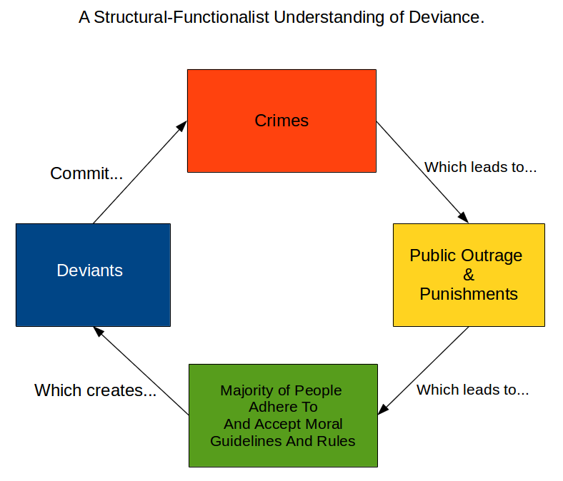 This chart depicts how different elements of society change in response to deviant acts, creating deviants in the process.